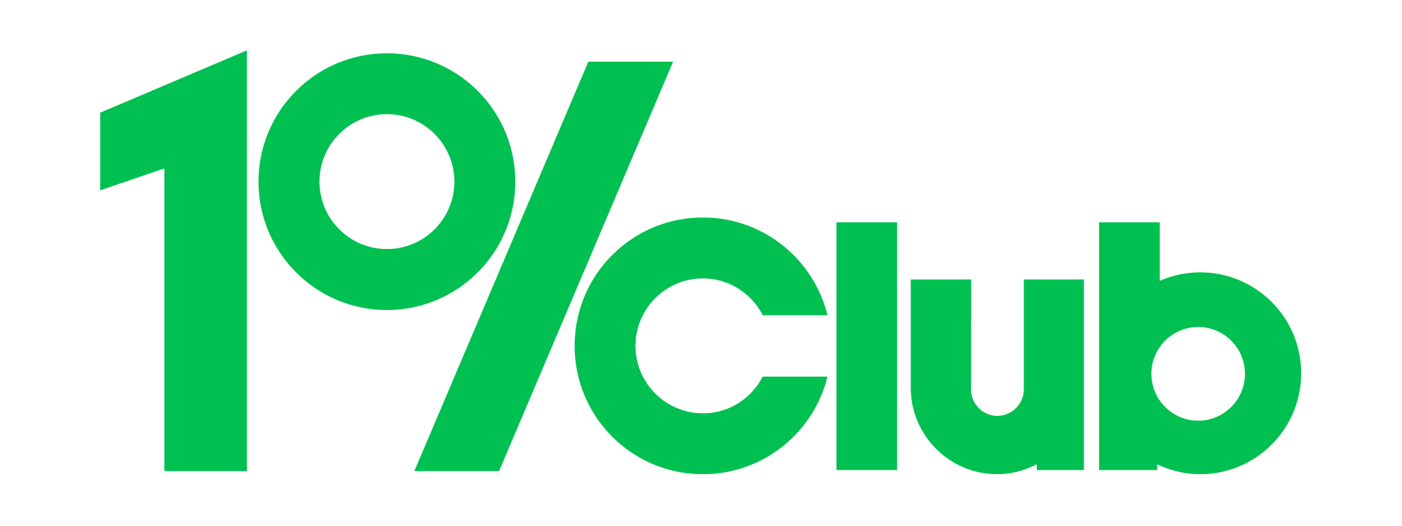 This is the logo for the 1%CLUB, a platform which connects development projects to money, time and knowledge.